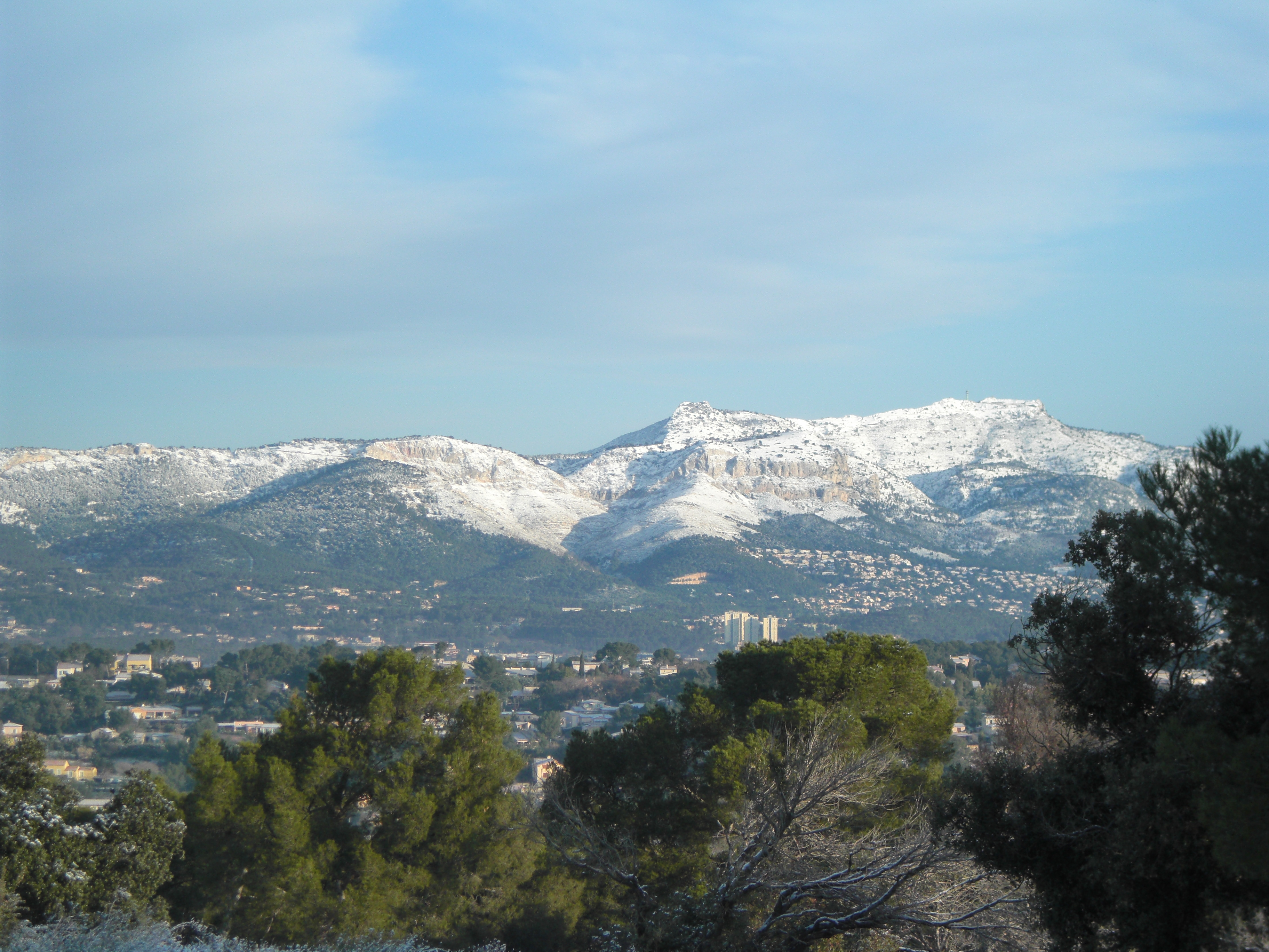 Mont Caume